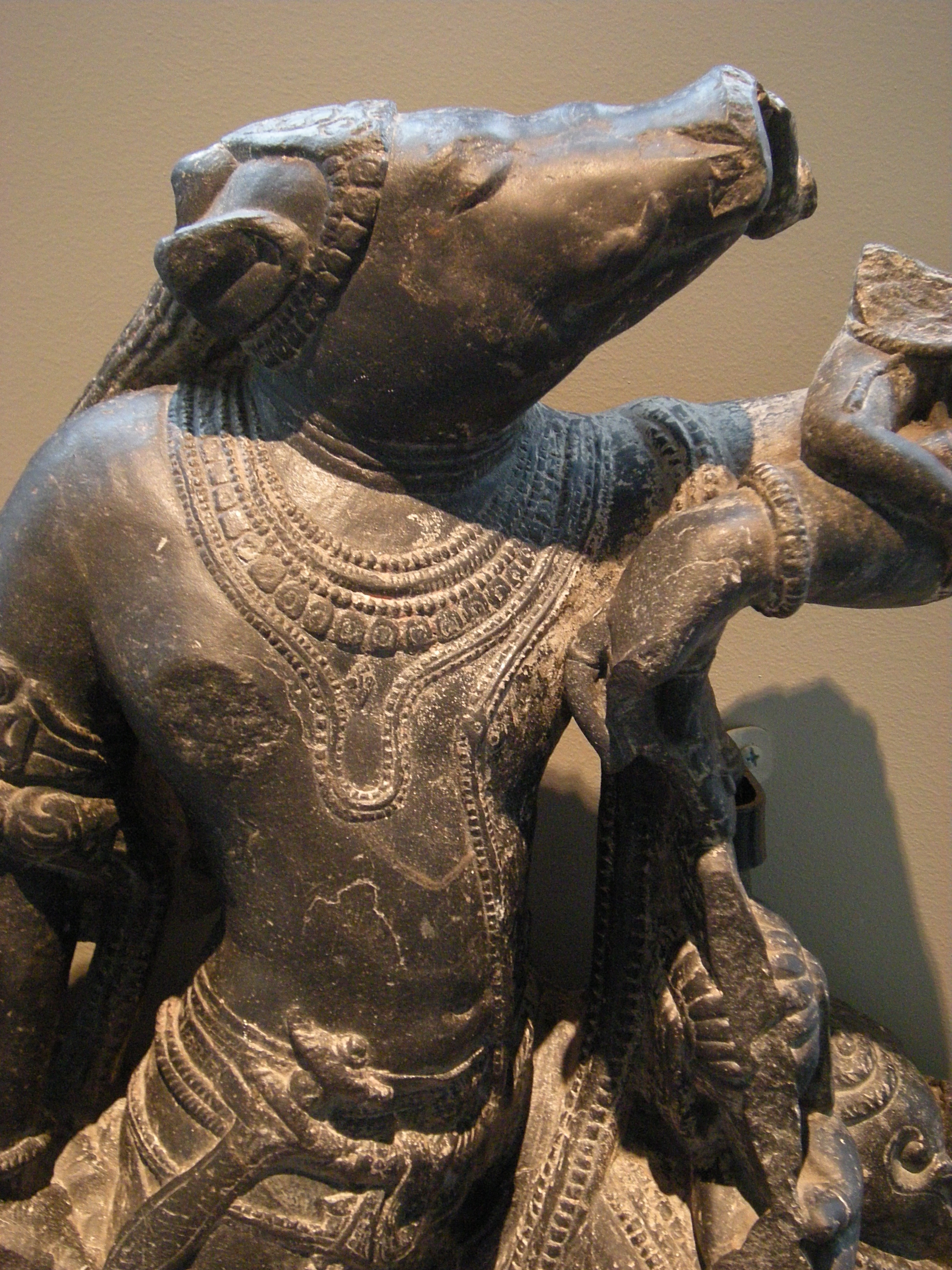 North Indian 11th century sculpture of Varaha. Trammell and Margaret Crow Collection of Asian Art, a museum in Dallas, Texas.